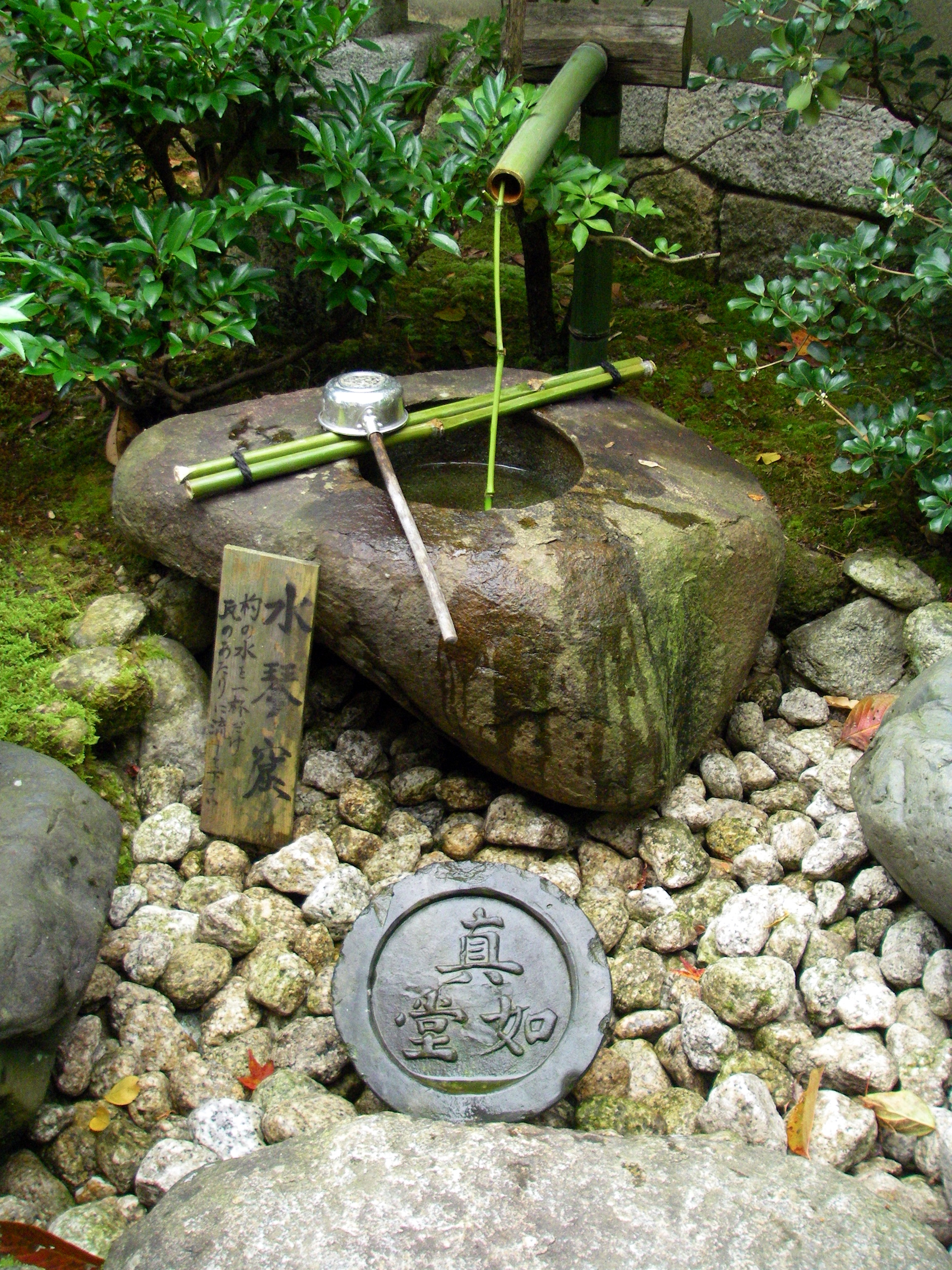 Suikinkutsu in Shinshōgokuraku-ji,Kyoto,Japan.